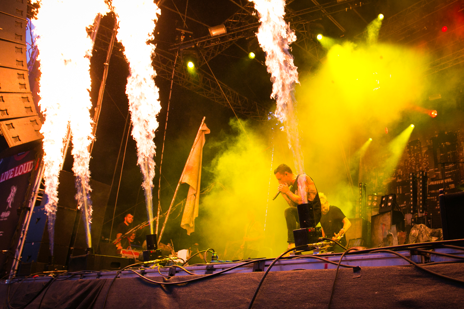 Parkway Drive at Vainstream 2015